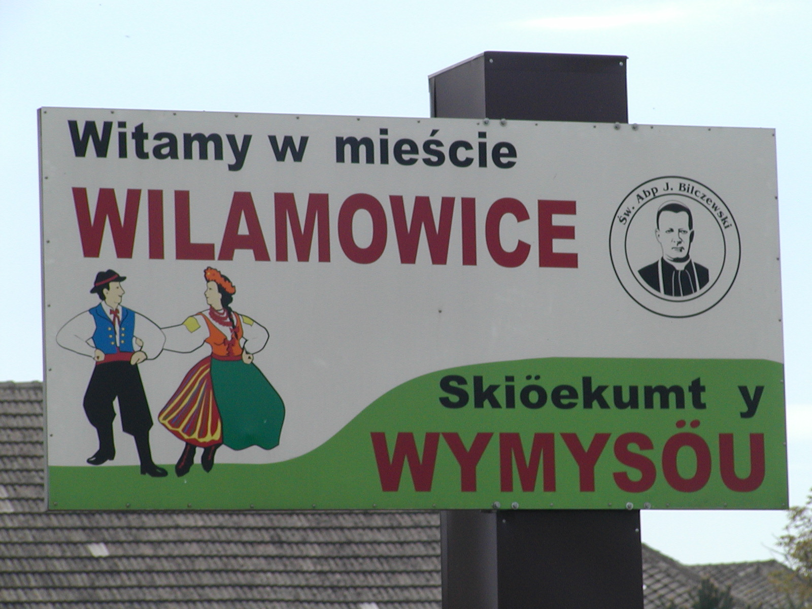 Bilingual welcome sign in Wilamowice. "Witamy w mieście Wilamowice" in Polish, and "Skiöekumt y Wymysoü" in Vilamovian language.